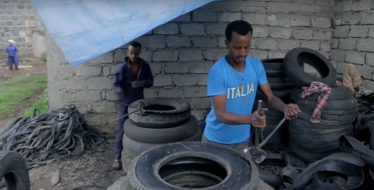 Agnes Edihan Marquis interviews SoleRebels CEO Bethlehem Tilahun Alemu for NdaniTV on 19 June 2017